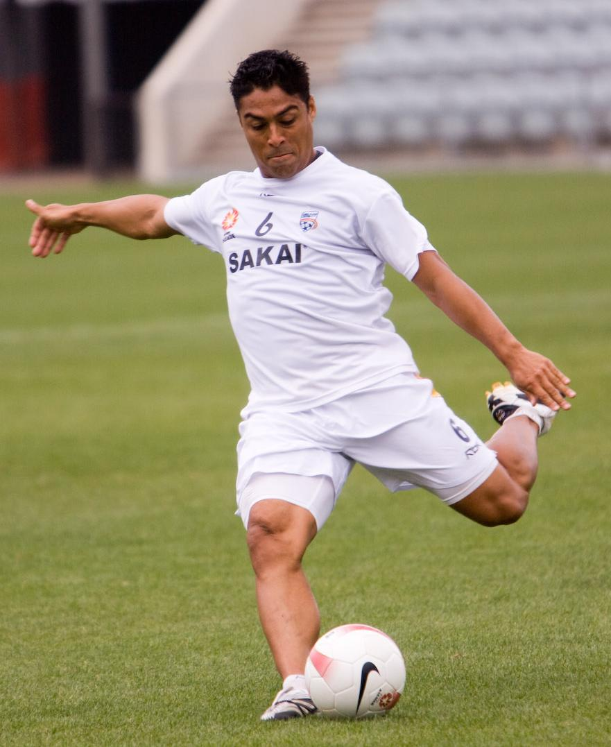 Cássio José de Abreu Oliveira known as Cássio training with Adelaide United FC